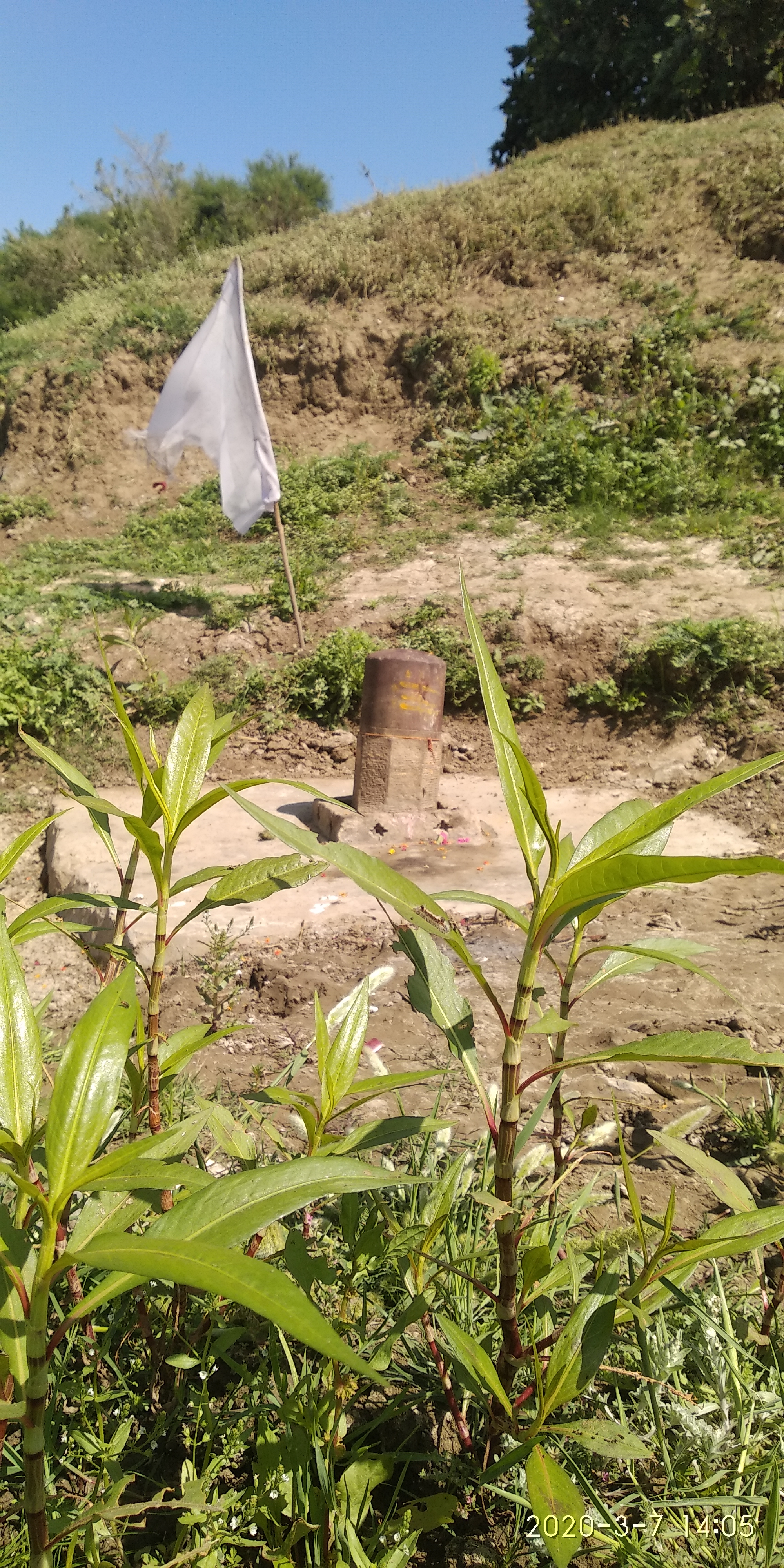 The Holy and Divine Place of Worship To Lord Shiva at the Confluence in Chachorni